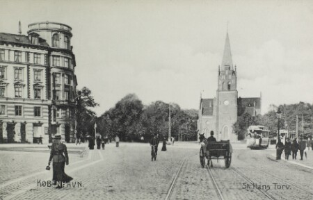 Sankt Hans Torv in Copenhagen, Denmark